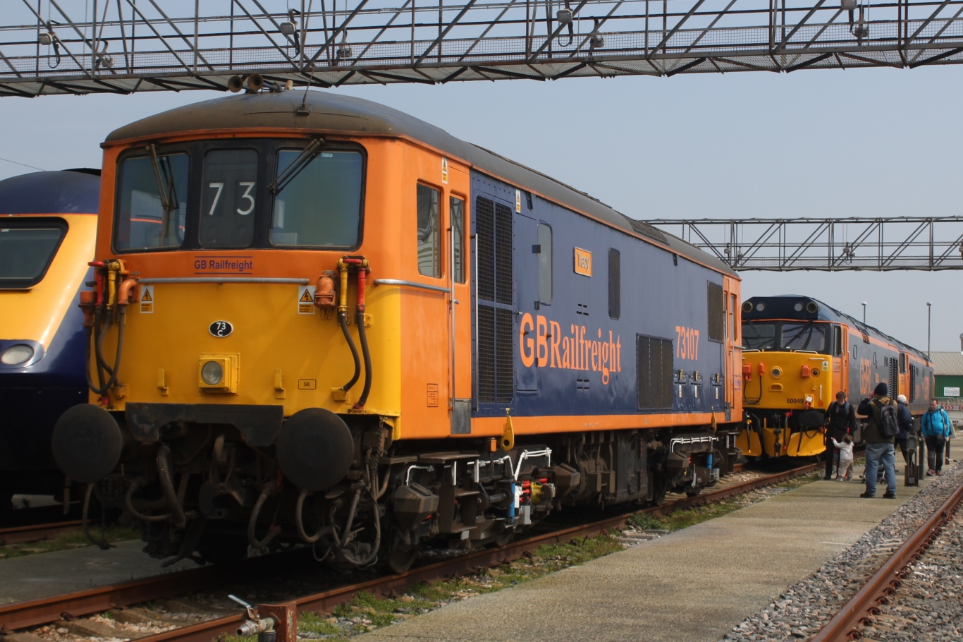 Class 73 electro-diesels are not common visitors to Cornwall, in fact I think this the first time that one has reached Penzance. 73107 is on display at Long Rock Depot open day, along with freshly painted 50049 and 50007.